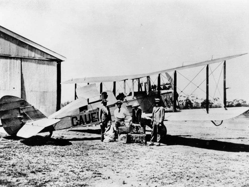 QANTAS biplane at Cloncurry, 1923 Airco De Havilland DH.9C G-AUEF was acquired by QANTAS in 1923 for the Charleville - Cloncurry route. Pilot, Captain G. Matthews is on the left and Mr. A. N. Templeton is on the right. (Original description supplied with photograph).